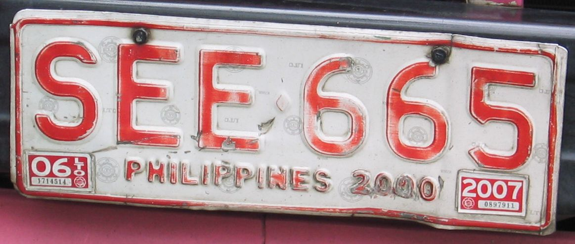 Registration plate of government vehicles, Philippines